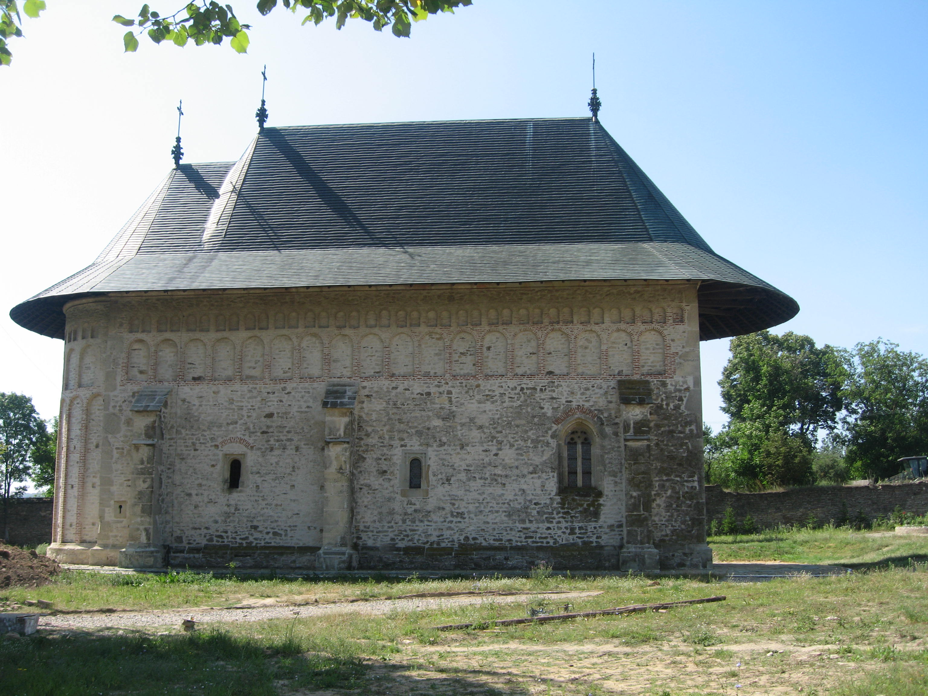 Mănăstirea Dobrovăţ